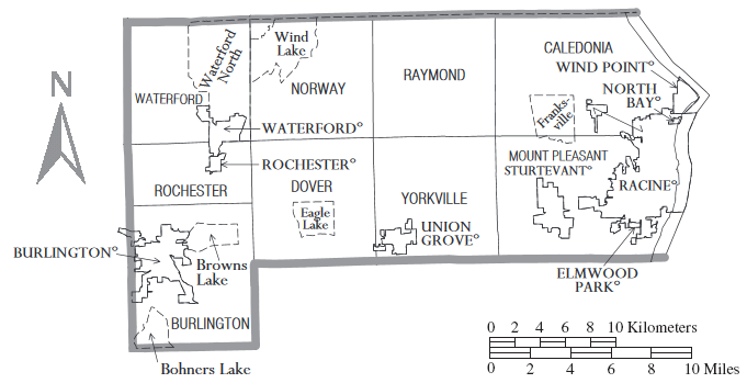 Map of Racine County, Wisconsin, United States with township and municipal boundaries